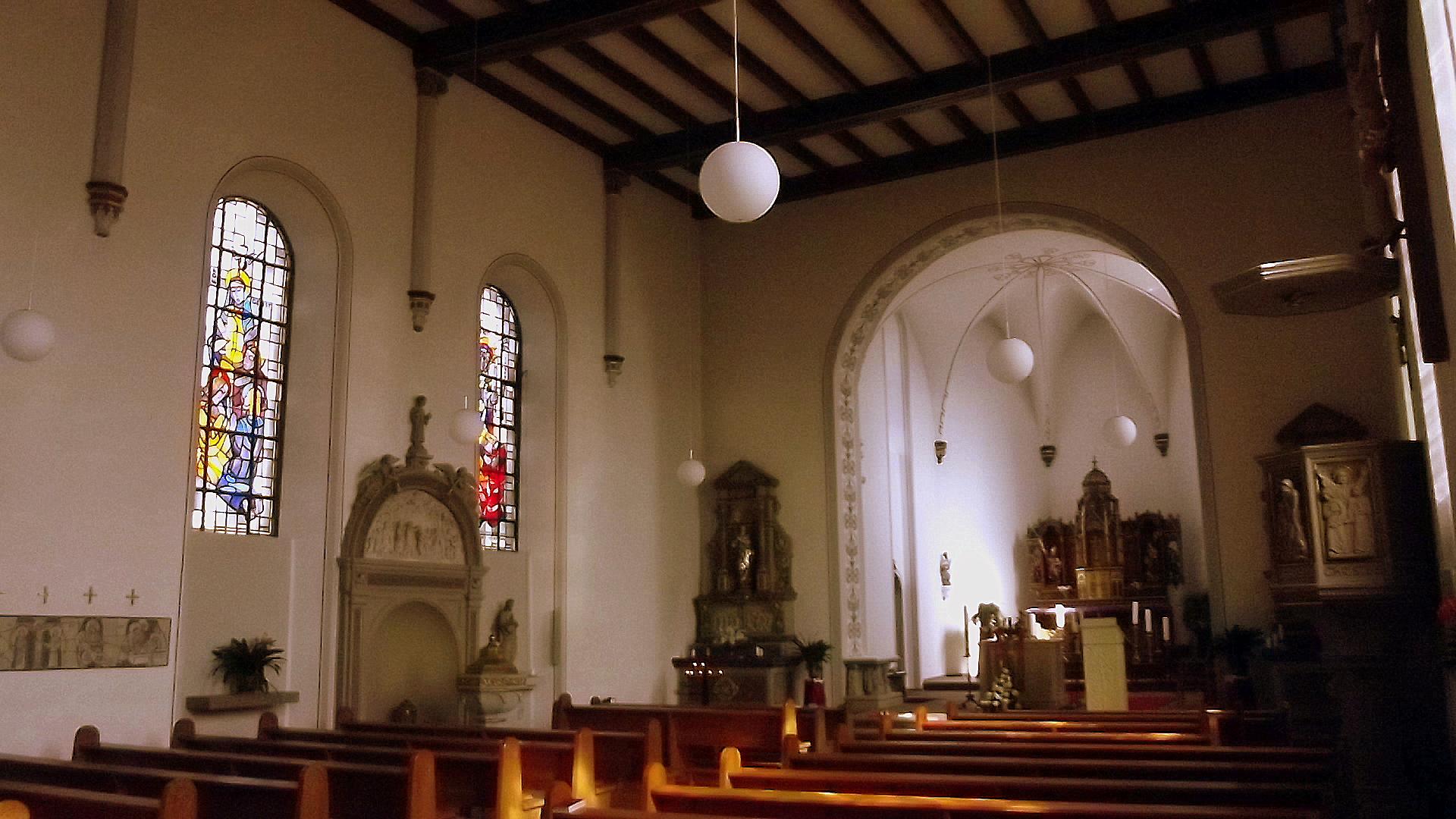 Interior of the roman catholic church in Tettingen-Butzdorf, Saarland, Germany